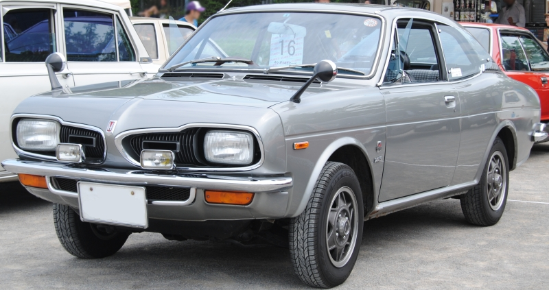 Honda 145 coupe GL